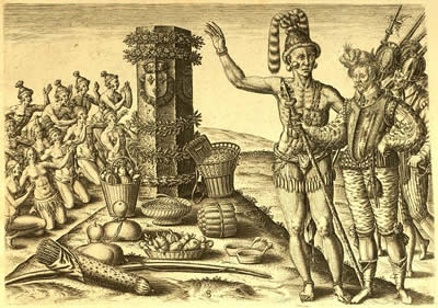 Author: Jacques Lemoyne/Theodore DeBry Photo credit: The Florida Center for Instructional Technology, University of South Florida source URL: The images attributed to Jacques le Moyne (actually engravings produced by a Dutch publisher named Theodor de Bry, who was supposed to have based his engravings on paintings by le Moyne) have fallen under intense scrutiny and their legitimacy as works related to le Moyne are considered very questionable. Jerald Milanich, author of books on the Timucua and an archaeologist at the Florida Museum of Natural History has published an article in which he questions whether Le Moyne produced drawings of the Timucua at all, based on the unexplainable lack of any definite documentation or evidence. (See: Milanich, Jerald, "The Devil in the Details", Archaeology, May/June 2005)